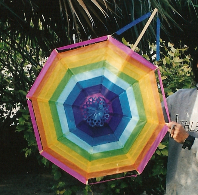 A Bermuda kite. Place: City of Hamilton, Pembroke, Bermuda.